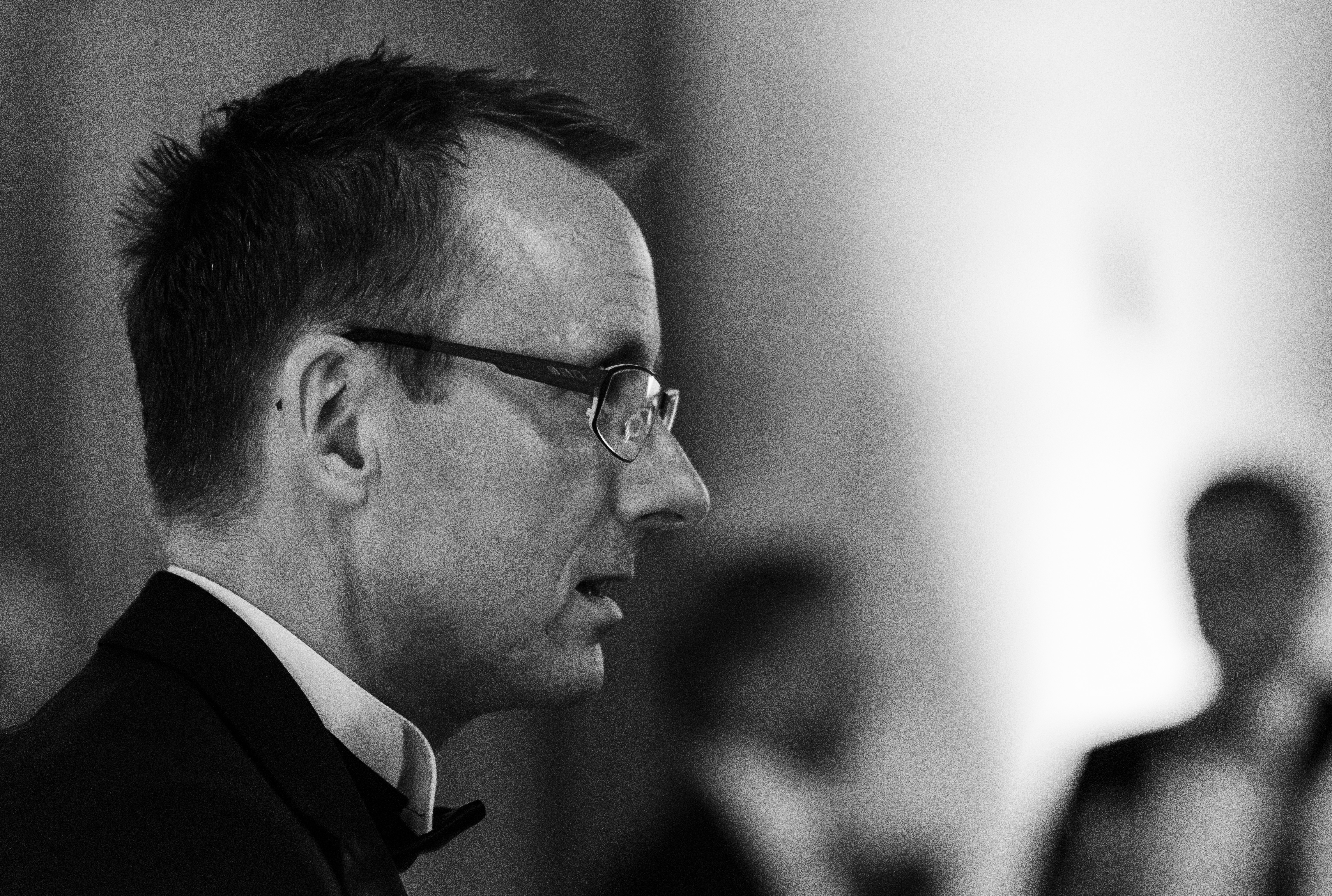 Lars Lindberg Christensen at the European Southern Observatory 50th anniversary gala, Residenz, Munich, October 11, 2012.